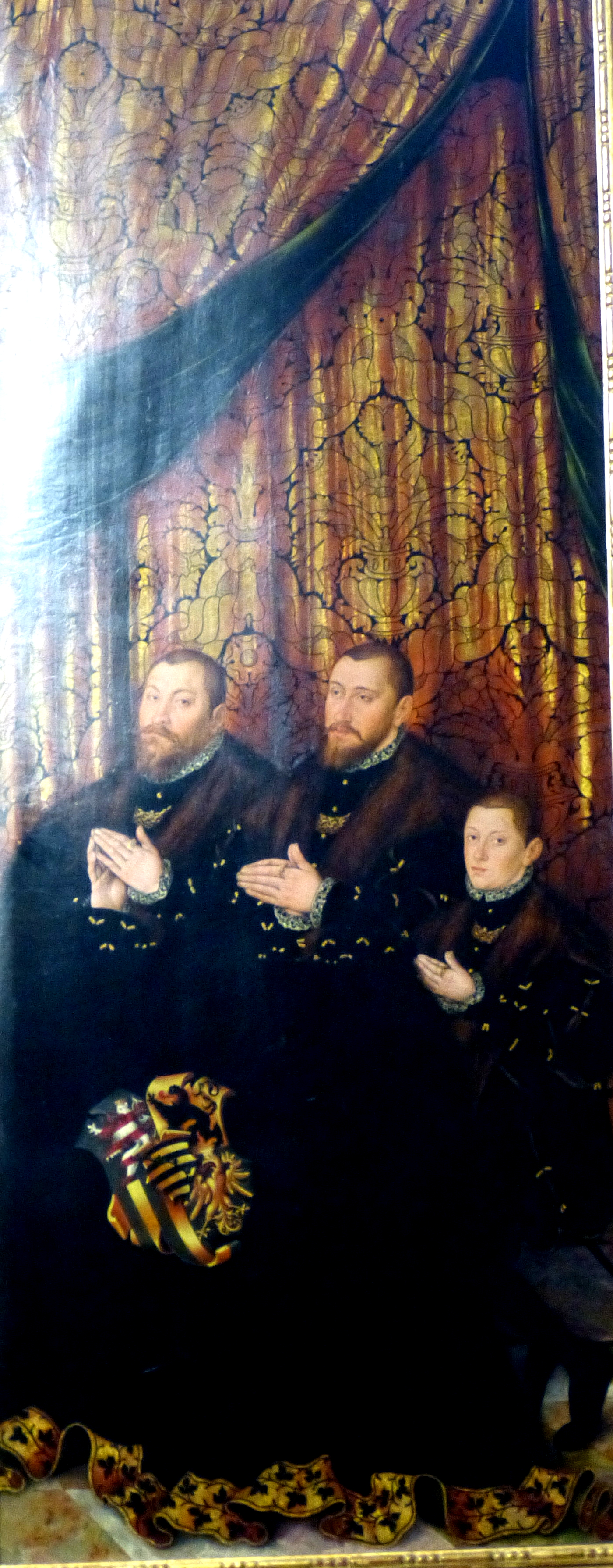 Weimar ( Thuringia ). Herder church: Altar ( 1555 ) of the crucifixion of Christ by Lucas Cranach the Younger - right wing: Sons of Johann Friedrich, duke of Saxony - Johann Freidrich II, Johann Wilhelm and Johann Friedrich III